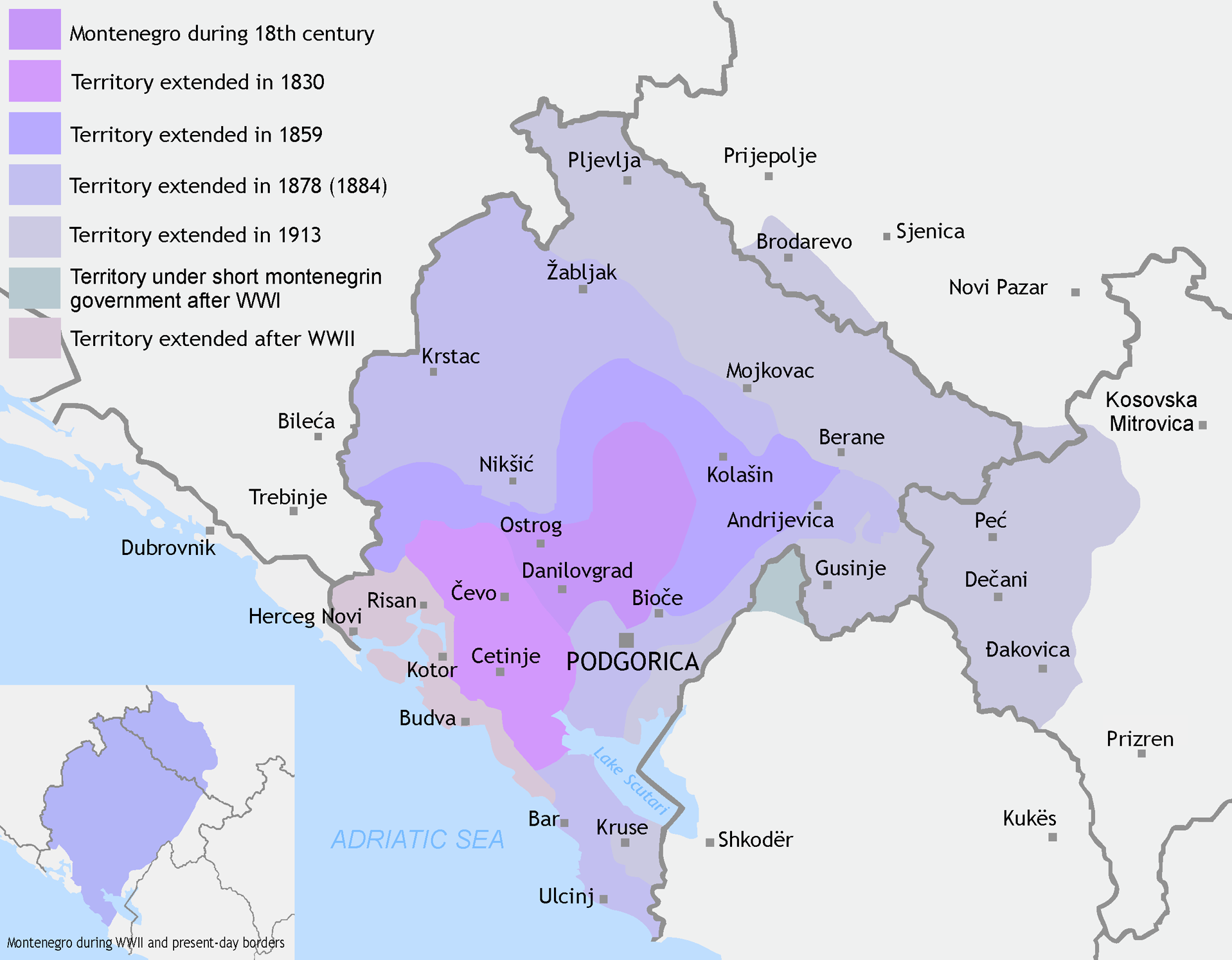 Montenegro territory expanded 1830-1944